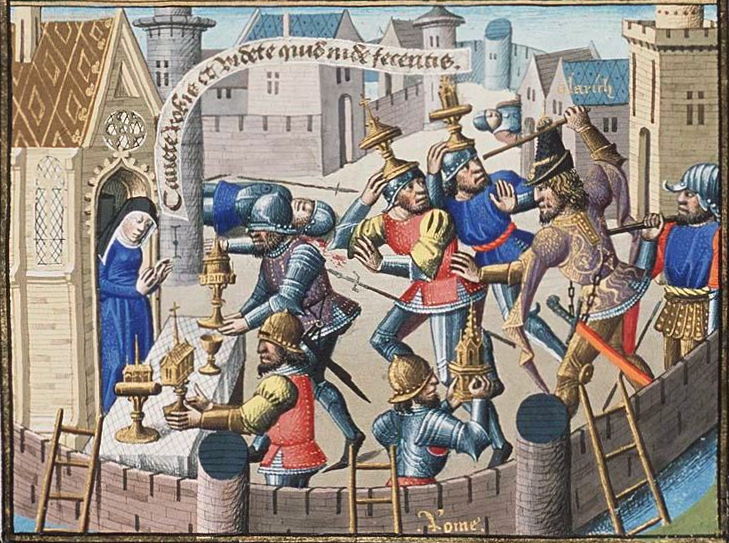 Augustine, La Cité de Dieu (Vol. I). Translation from the Latin by Raoul de Presles: Sack of Rome by Alaric - sacred vessels are brought to a church for safety (2nd of 2 images). Place of origin, date: Paris, Maïtre François (illuminator); c. 1475; 1478-1480 Material: Vellum, ff. 467, 440x300 (270x185) mm, 46 lines, littera hybrida, Binding: 18th-century brown leather (c. 1769) Decoration: 11 two-column miniatures (257/204x190/177 mm); 277 column miniatures (c. 120x80 mm); 11 illustrations in the margin (coats of arms); decorated initials with border decoration Provenance: made for Jacques d'Armagnac, duke of Nemours (1433-1477) and after his capture continued for Philippe de Commines (1447-1511), lord of Argenton (coats of arms in margin and on edge). Purchased in 1751 at the sale of J.-A. Crozat de Tugny (1696-1751) at Thiboust, Paris,by L.-J. Gaignat of Paris; purchased in 1769 at the Gaignat sale at G.F. De Bure le Jeune, Paris (cat. 1 Febr., no. 242) by Gerard Meerman (1722-1771) of Rotterdam, later The Hague; by descent to his son Johan Meerman (1753-1815); acquired between 1816 and 1824 by Willem H.J vanWestreenen van Tiellandt (1783-1848) of The Hague; by legacy to the kingdom of the Netherlands Annotation: Vol. II now: Nantes, BM, fr. 8